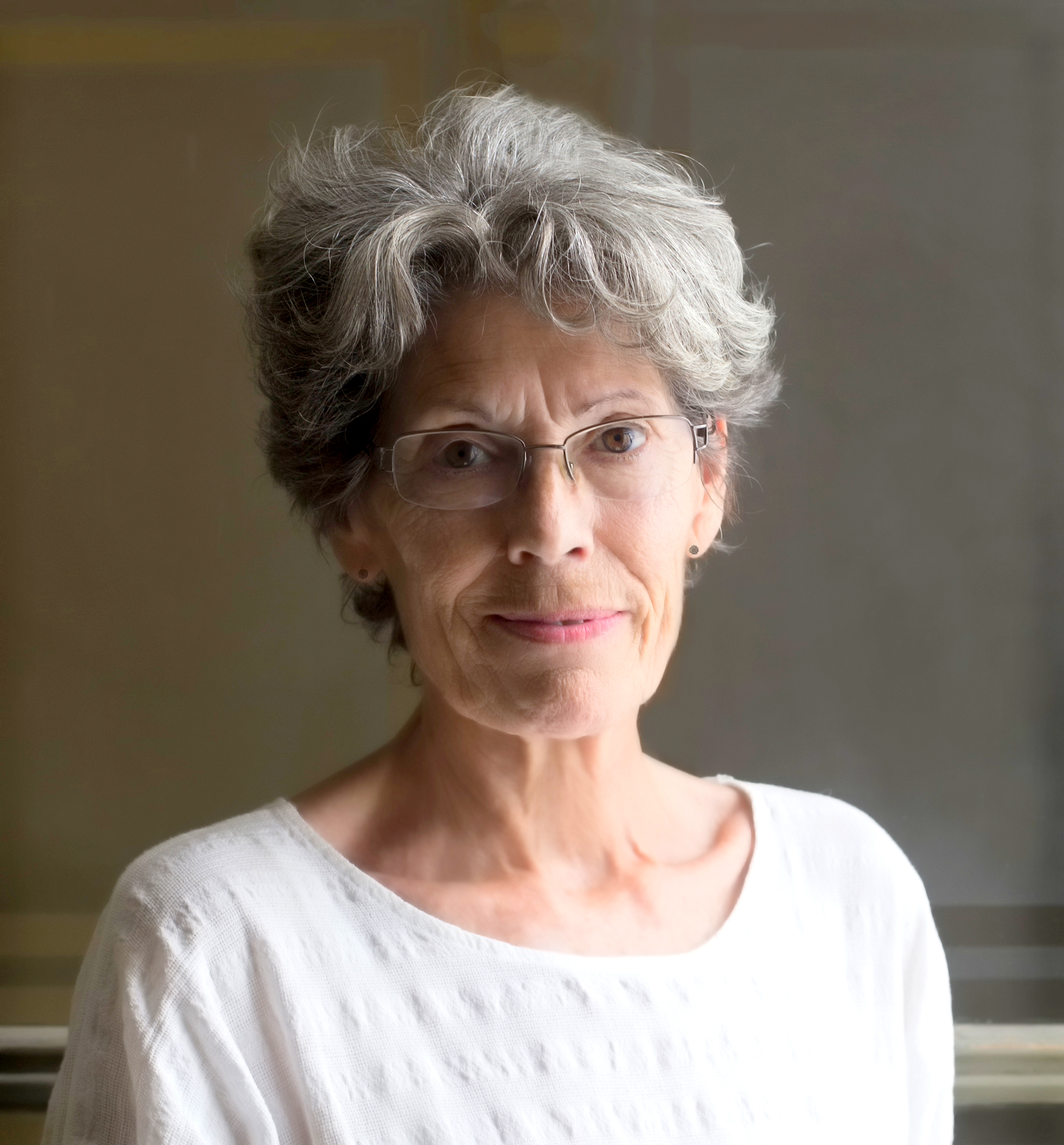 Marisa Mediavilla, founder of the Library of Women of Madrid. Madrid 2017